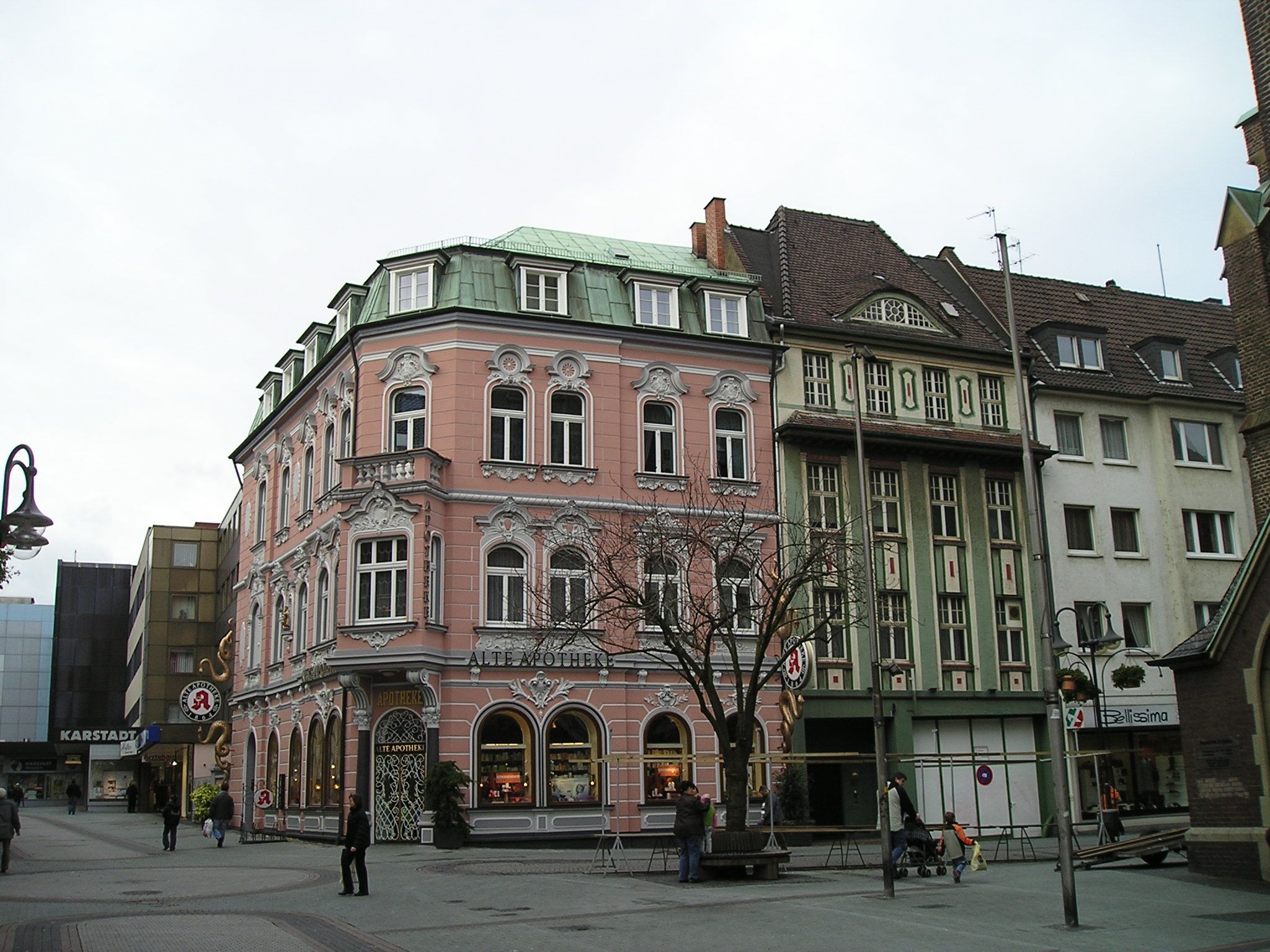 Alte Apotheke in Bottrop